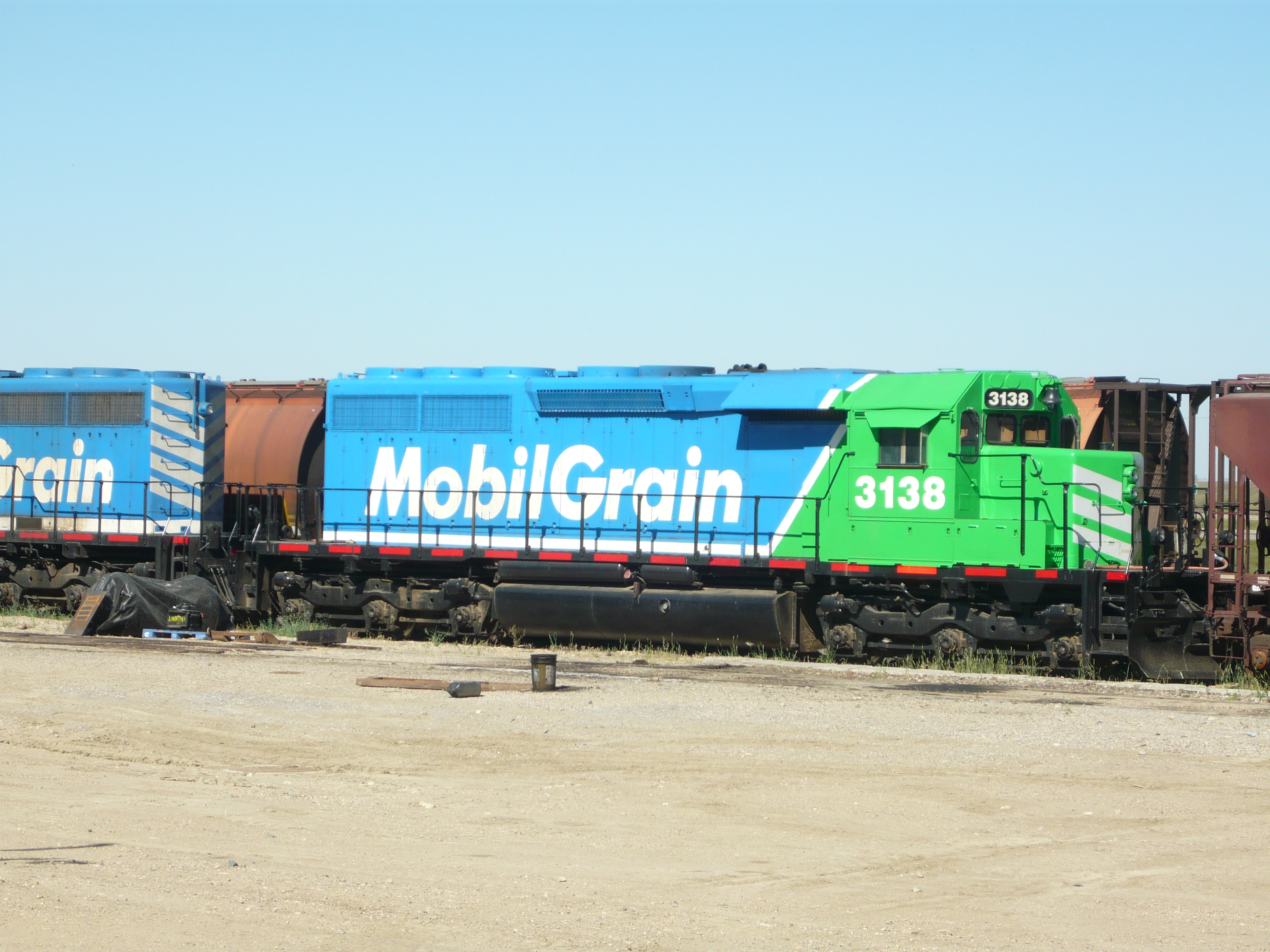 EMD SD40-3 Locomotive of Mobile Grain Ltd. (Last Mountain Railway) at Aylesbury, Saskatchewan, Canada. Unit 3138, acquired from Kansas City Southern in 2011.